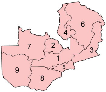 Map of the provinces of Zambia in alphabetical order.